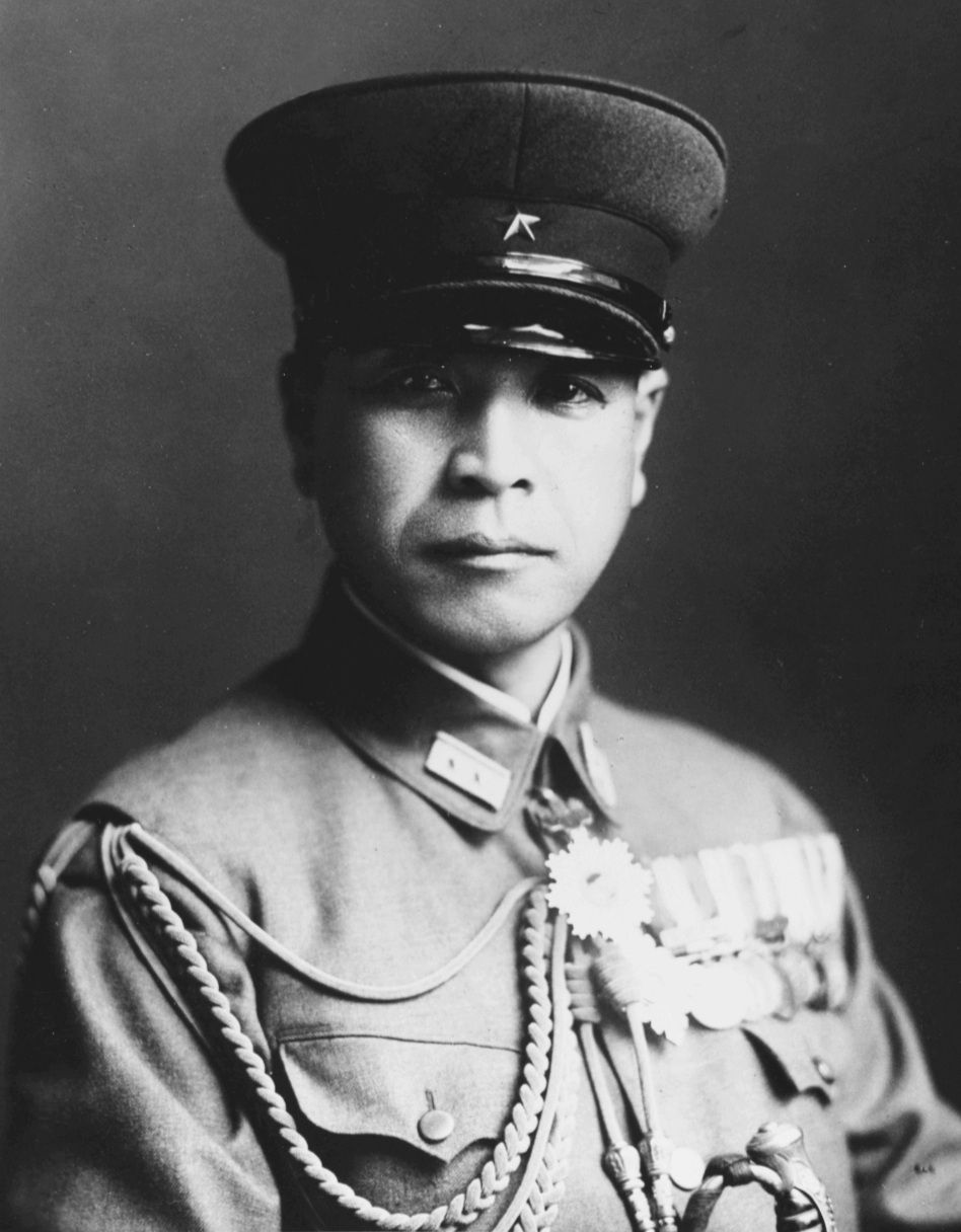 General Sosaku Suzuki (1891-1945)